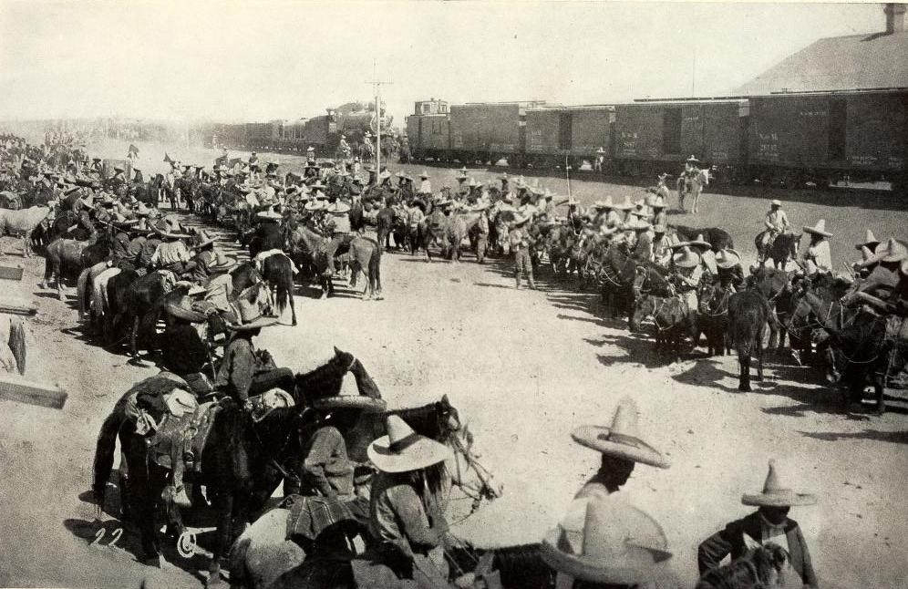 Orozco Revolution